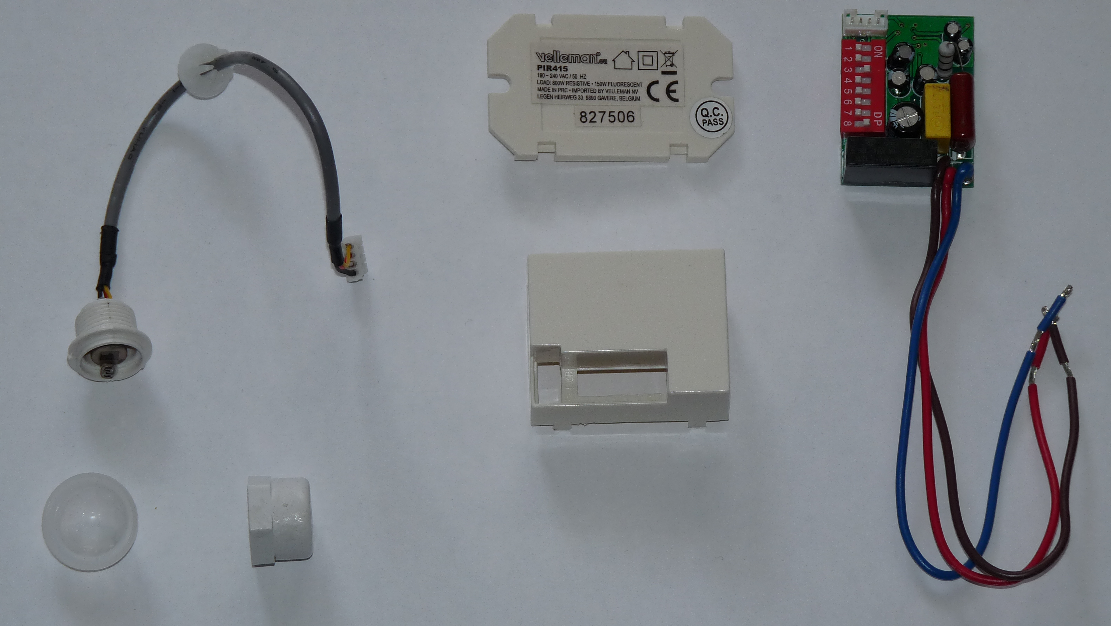 Motion sensor